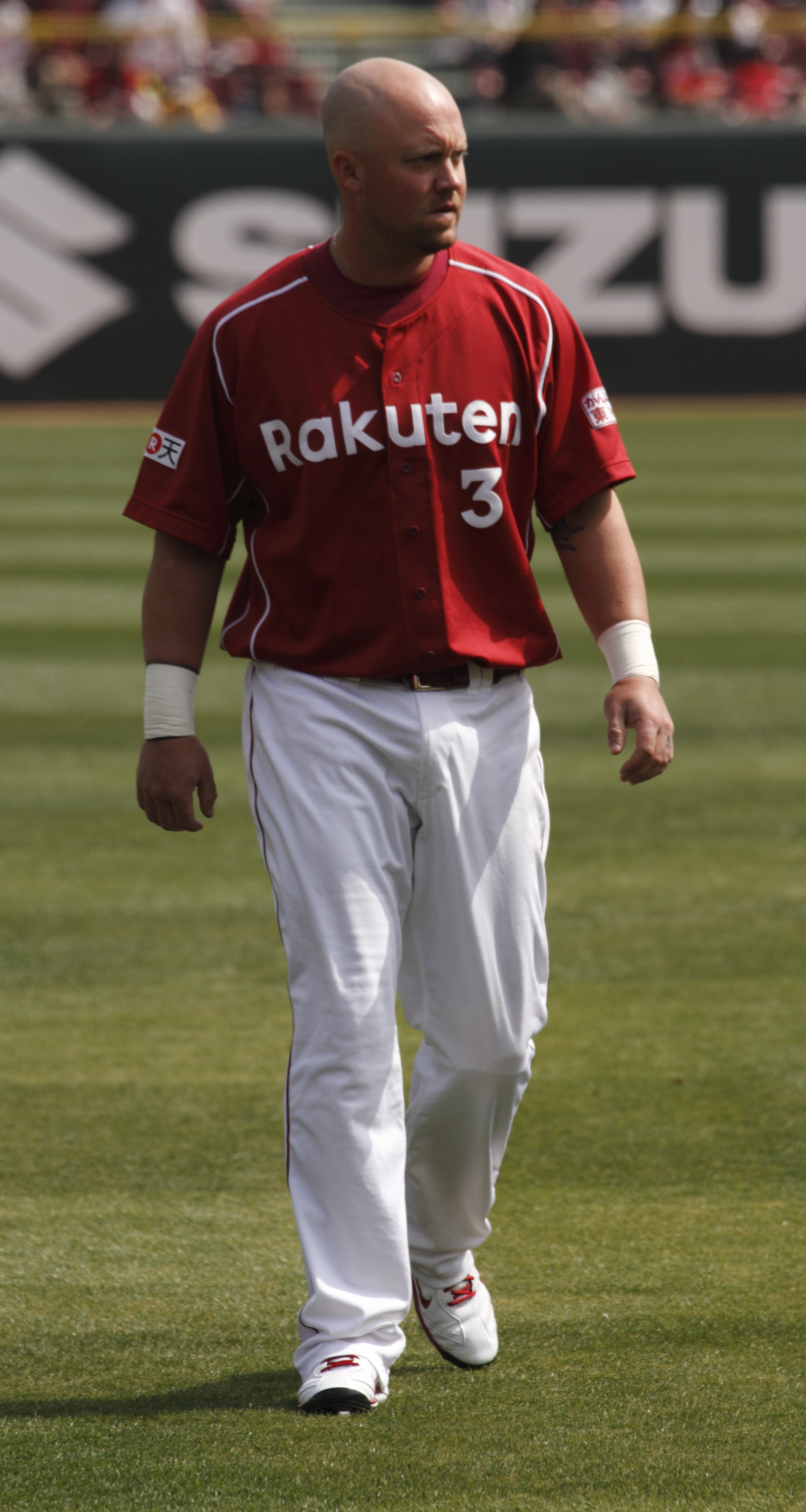 Casey McGehee, infielder of the Tohoku Rakuten Golden Eagles, at MAZDA Zoom-Zoom Stadium Hiroshima.